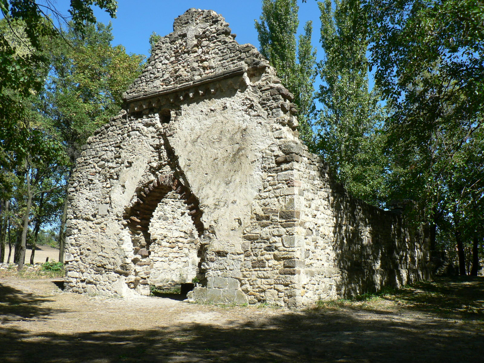 A kövesdi templomrom